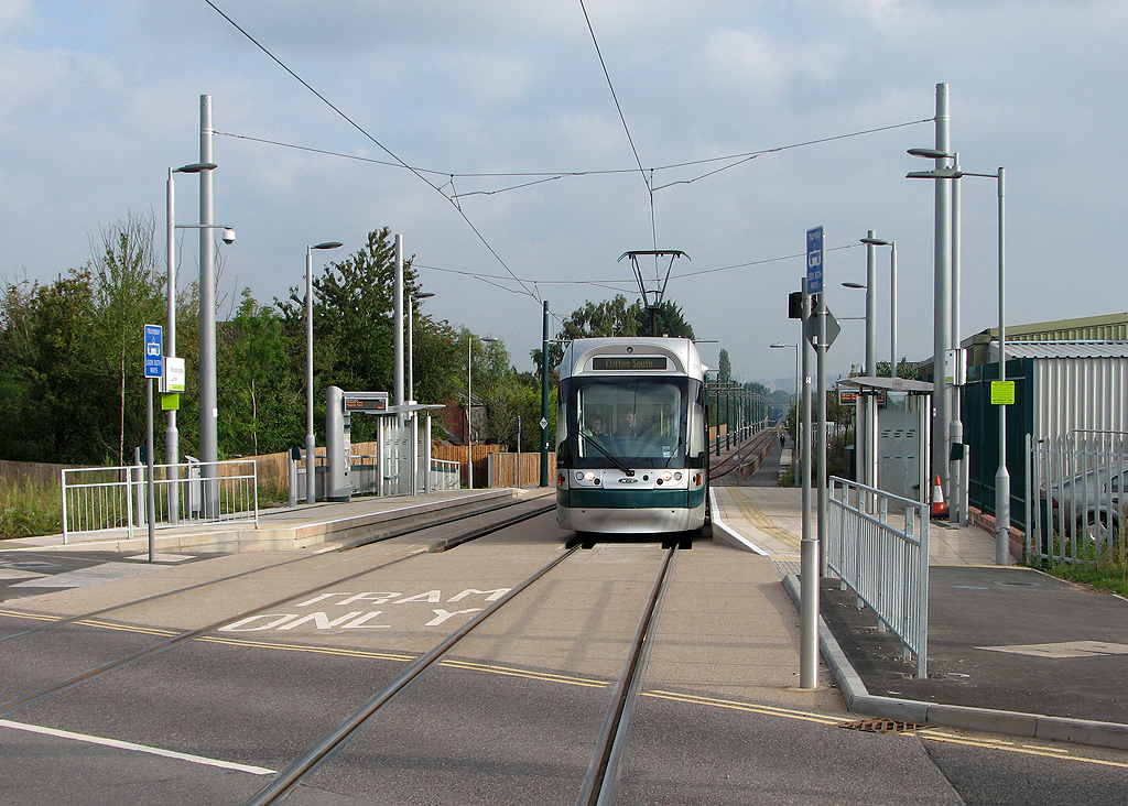 Clifton tram at Ruddington Lane. One of NET's Adtranz Incentro trams bound for Clifton South at one of the stops on the long section of reserved track between Wilford and Southchurch Drive, much of which follows the alignment of the former Great Central Railway line which closed in 1969. Ruddington Lane crossed the railway on a bridge. The site of the former Wilford Brickworks is to the right.